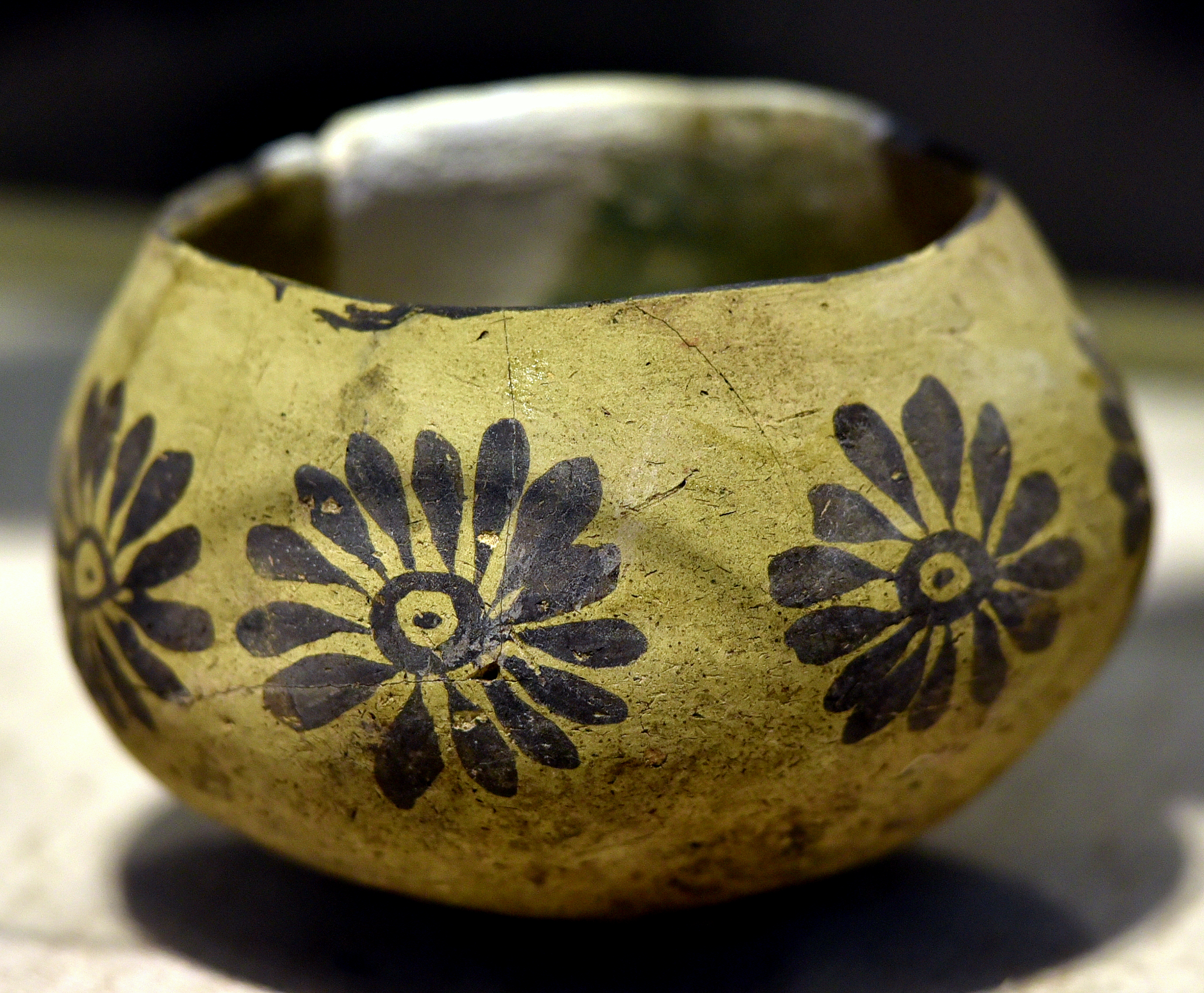 Pottery bowl with a rounded bottom; monochrome paint (rosettes). From Telul eth-Thalathat, Iraq. Ubaid period, c. 5000 BCE. On display at the Iraq Museum in Bagdad, Iraq.